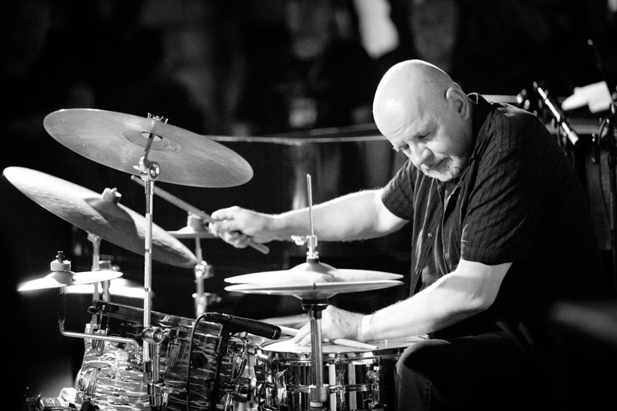 Randy Peterson with Særingfest 2 in Smeltehytta. The concert was part of Kongsberg Jazzfestival and took place on 06. July 2018 in Kongsberg. Lineup:Mat Maneri (viola)Randy Peterson (drums)